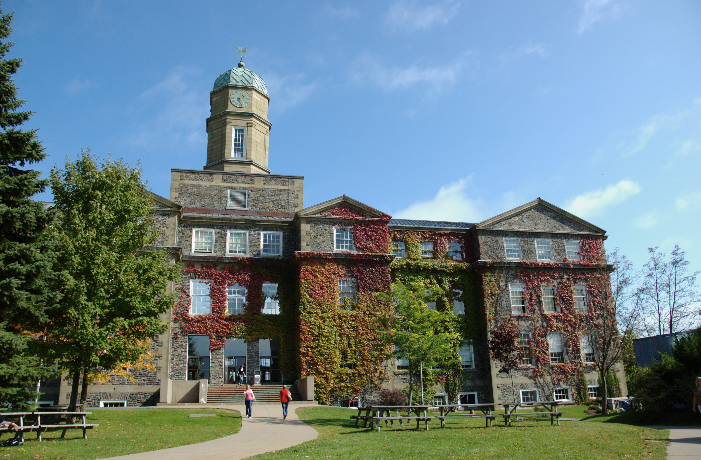 Henry Hicks Academic Building, Dalhousie University